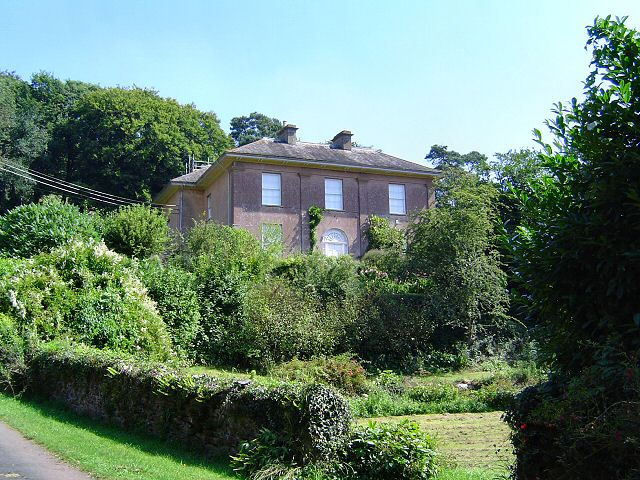 Combefishacre House - South Hams.